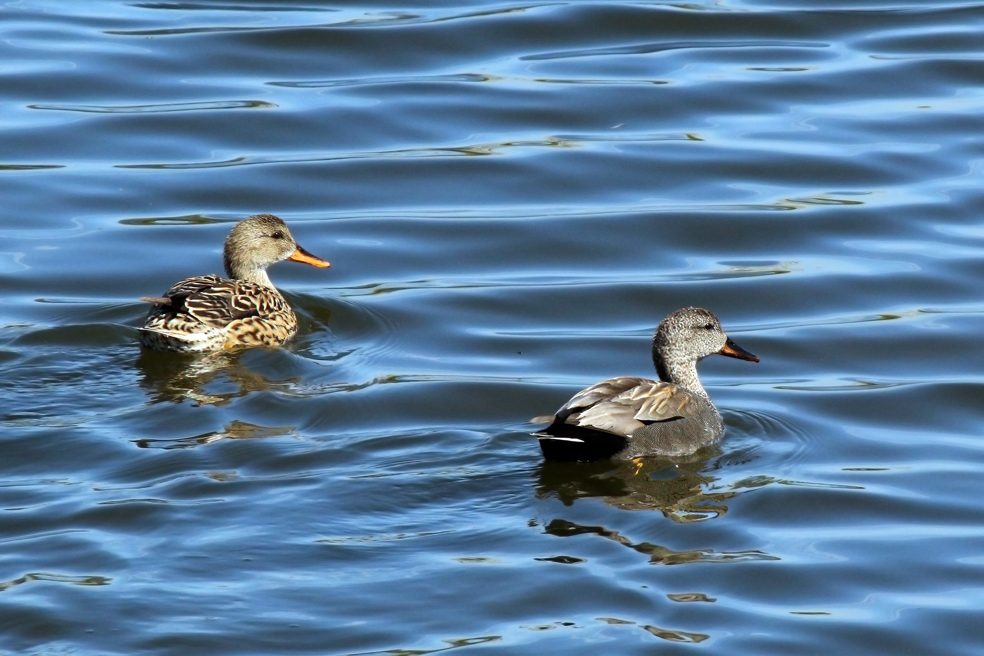 Gadwall (Anas strepera) female and male, WWT London Wetland Centre, Barnes